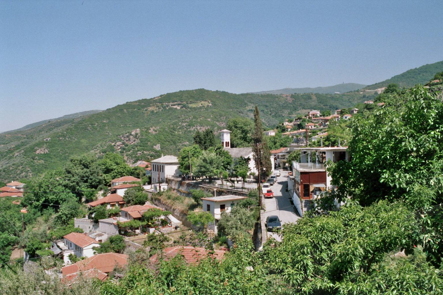 The village Agios Vlasios in Magnesia Prefecture. In the middle is the church of Saint Vlasios